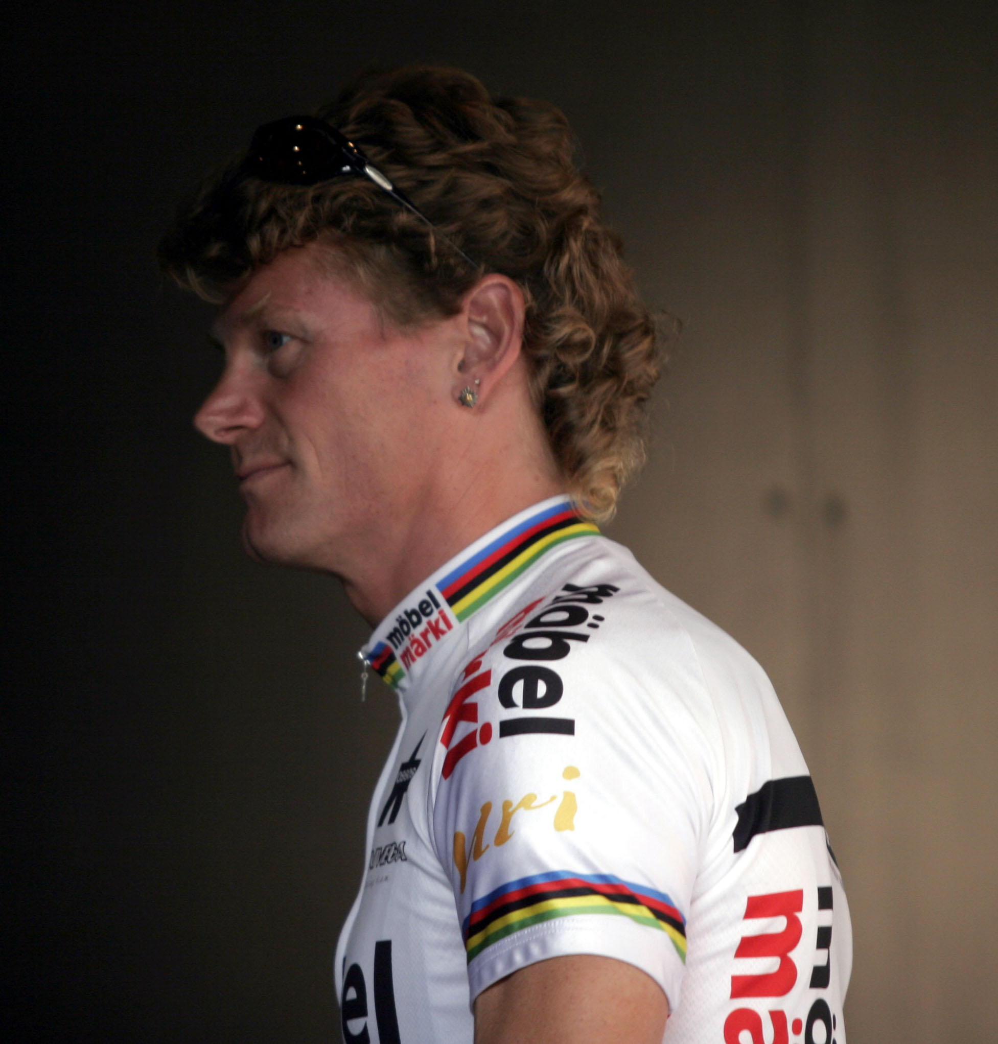 Bruno Risi, world-champion cyclist from Switzerland